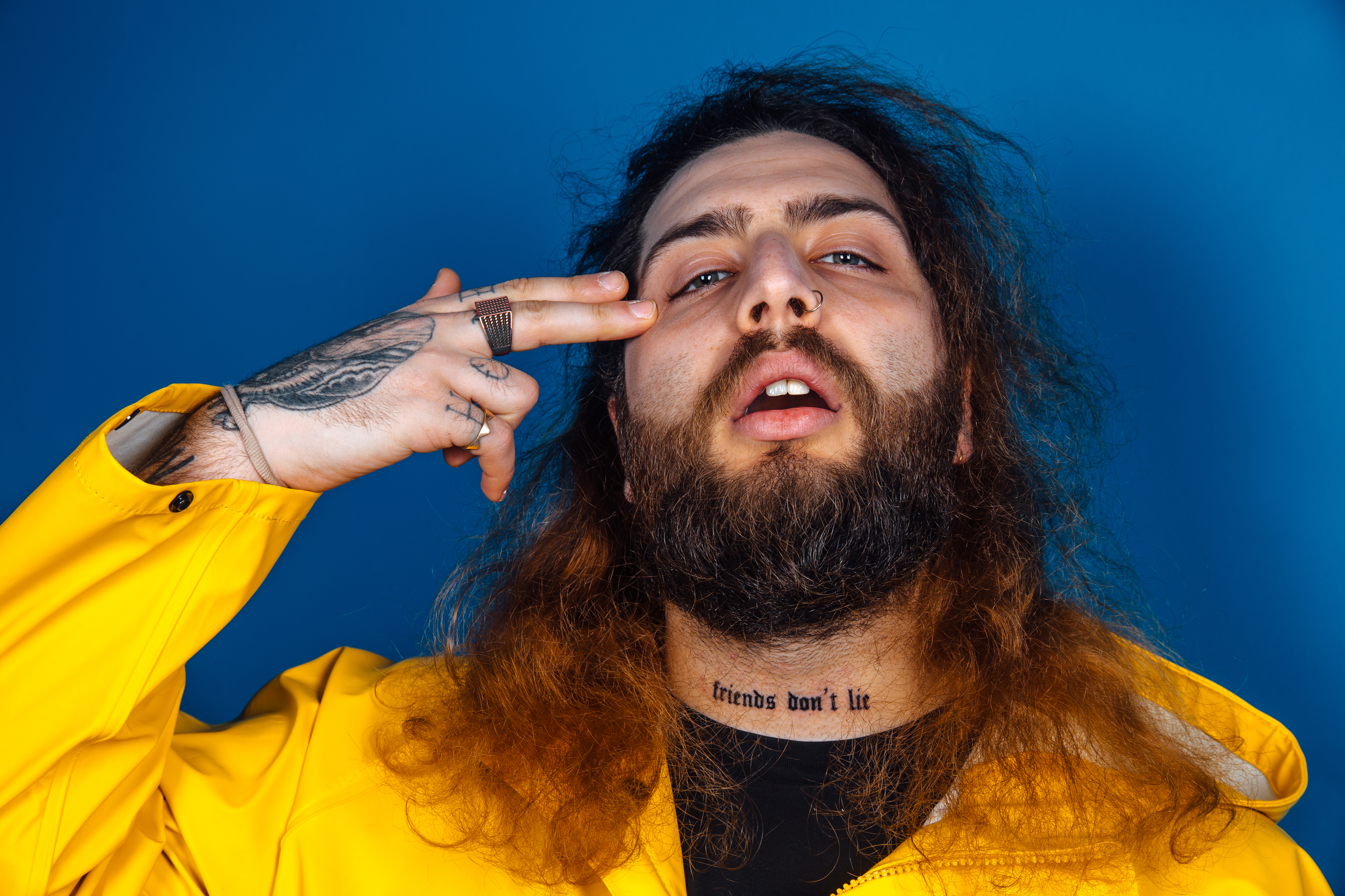 Pressefoto des Rappers Kex Kuhl